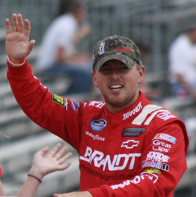 NASCAR driver Justin Allgaier during driver's introductions at the 2012 Sargento 200 Nationwide Series race at Road America.